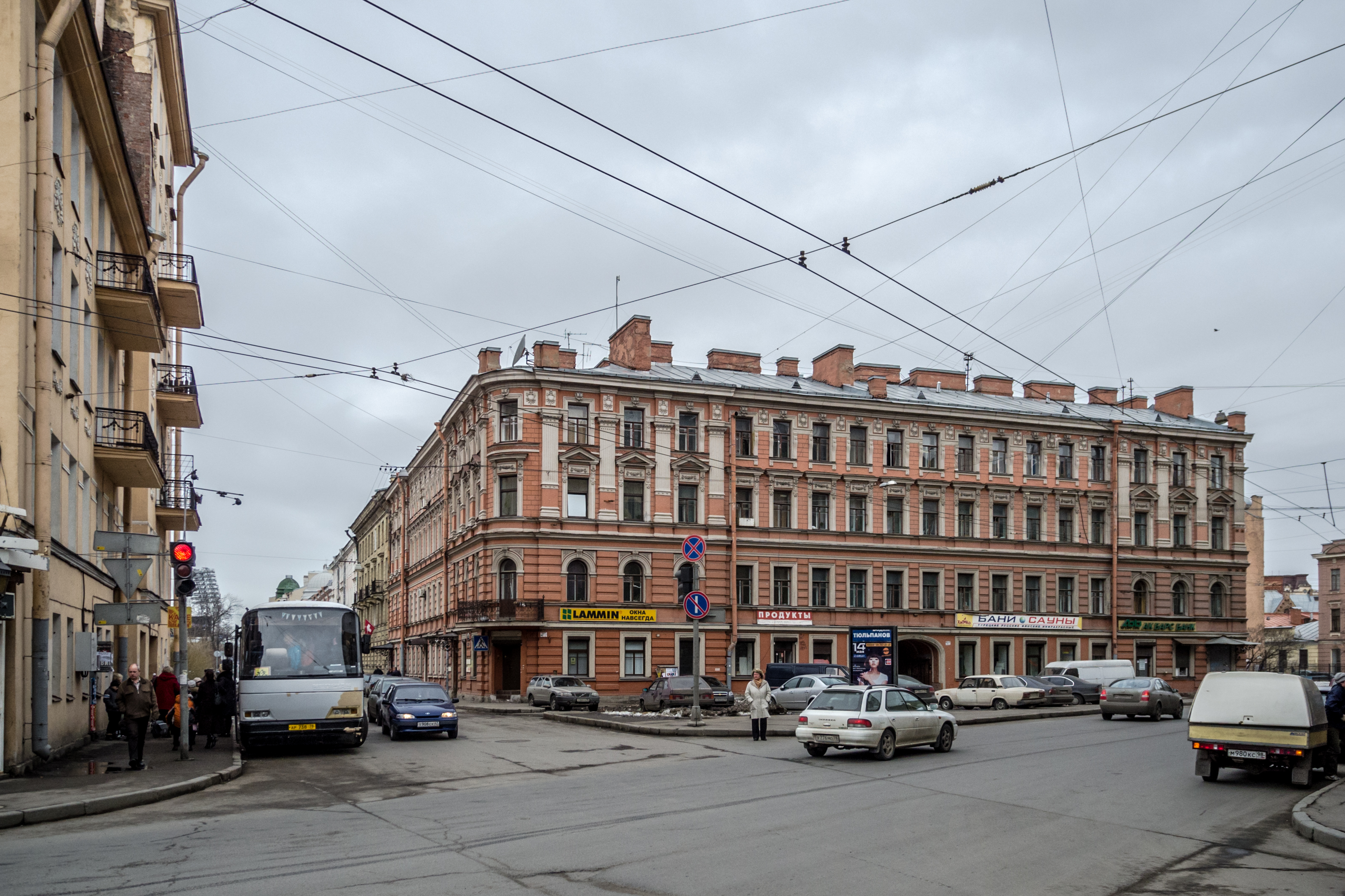 Saint Petersburg, 25, Blokhina street